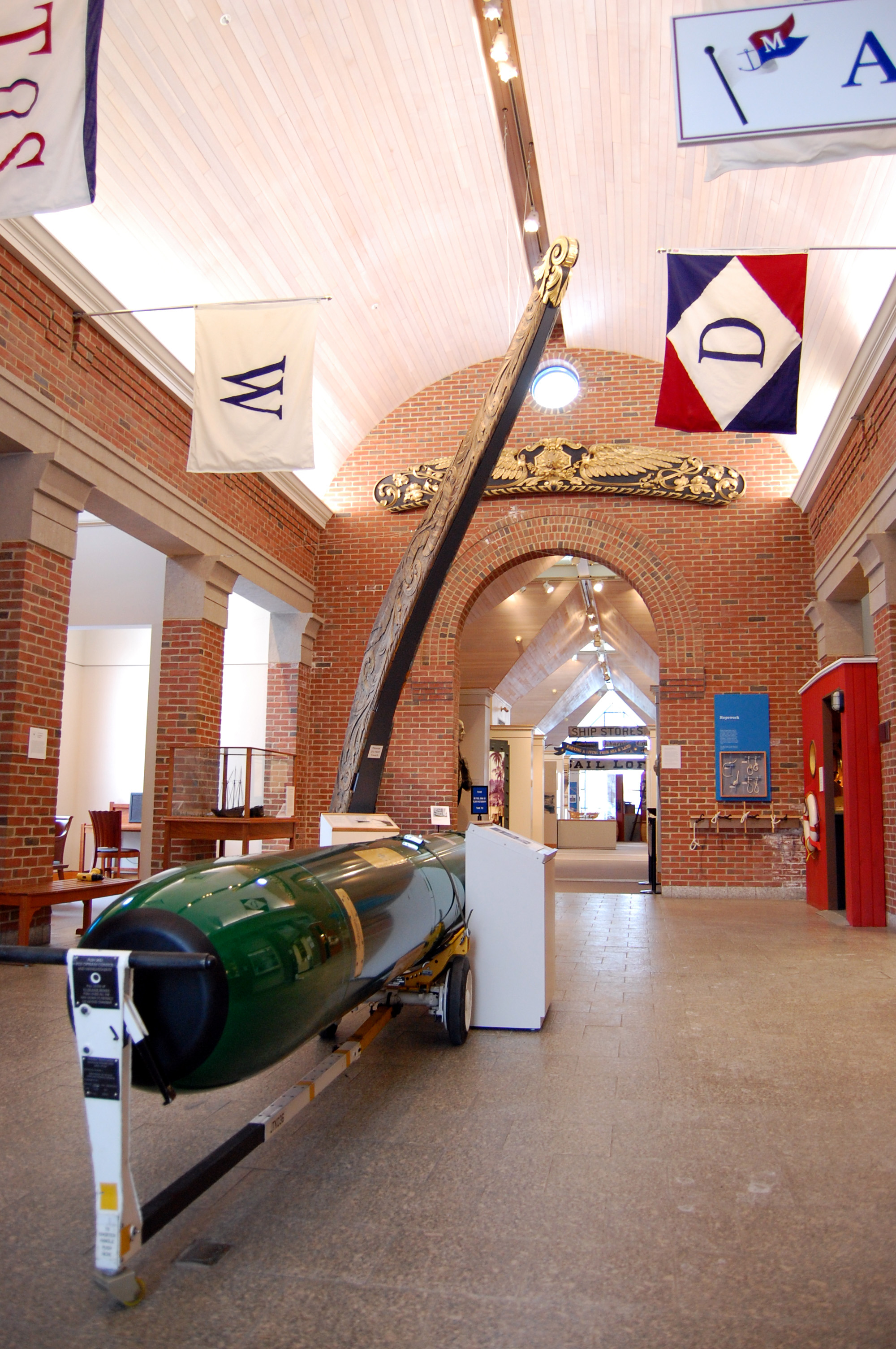 With ship owners' house flags, bow and stern carvings and USN Mark 40 torpedo hull.